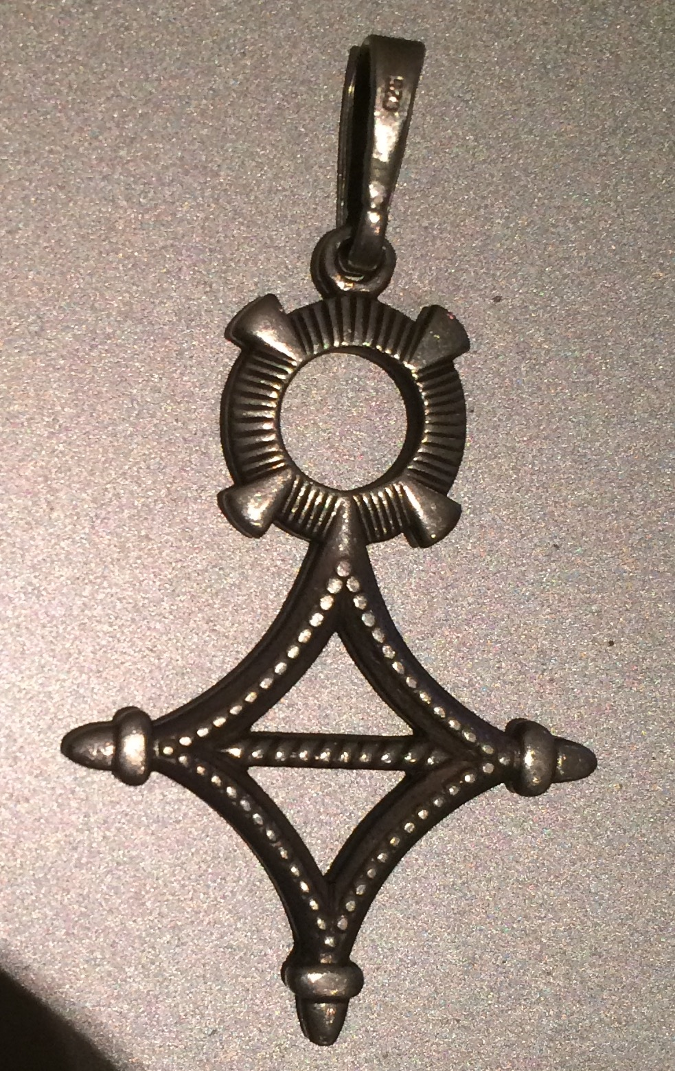 Agadez Cross - croix d'Agadez - tanaγilt